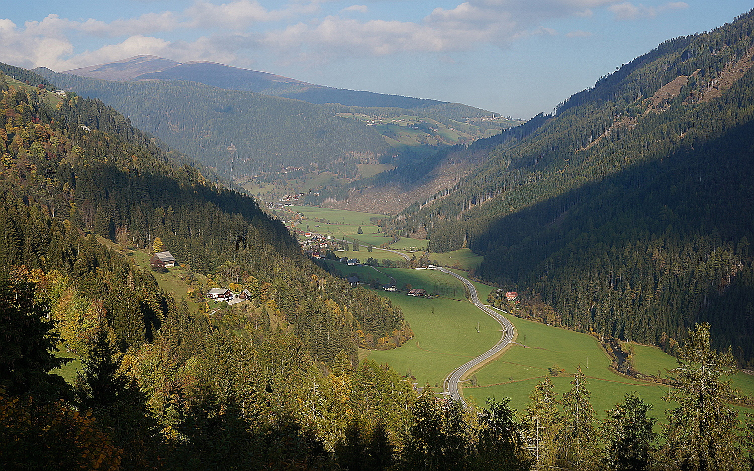 View to the municipality Reichenau (Kärnten) and over the mountains of Turracher Höhe, 1795m above sea level and the village Sankt Lorenzen, district Feldkirchen in Kärnten, Carinthia, Austria, European Union